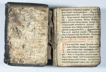 Psalter with book of hours, printed in 1569 by Jerolim Zagurović (1550-1580)